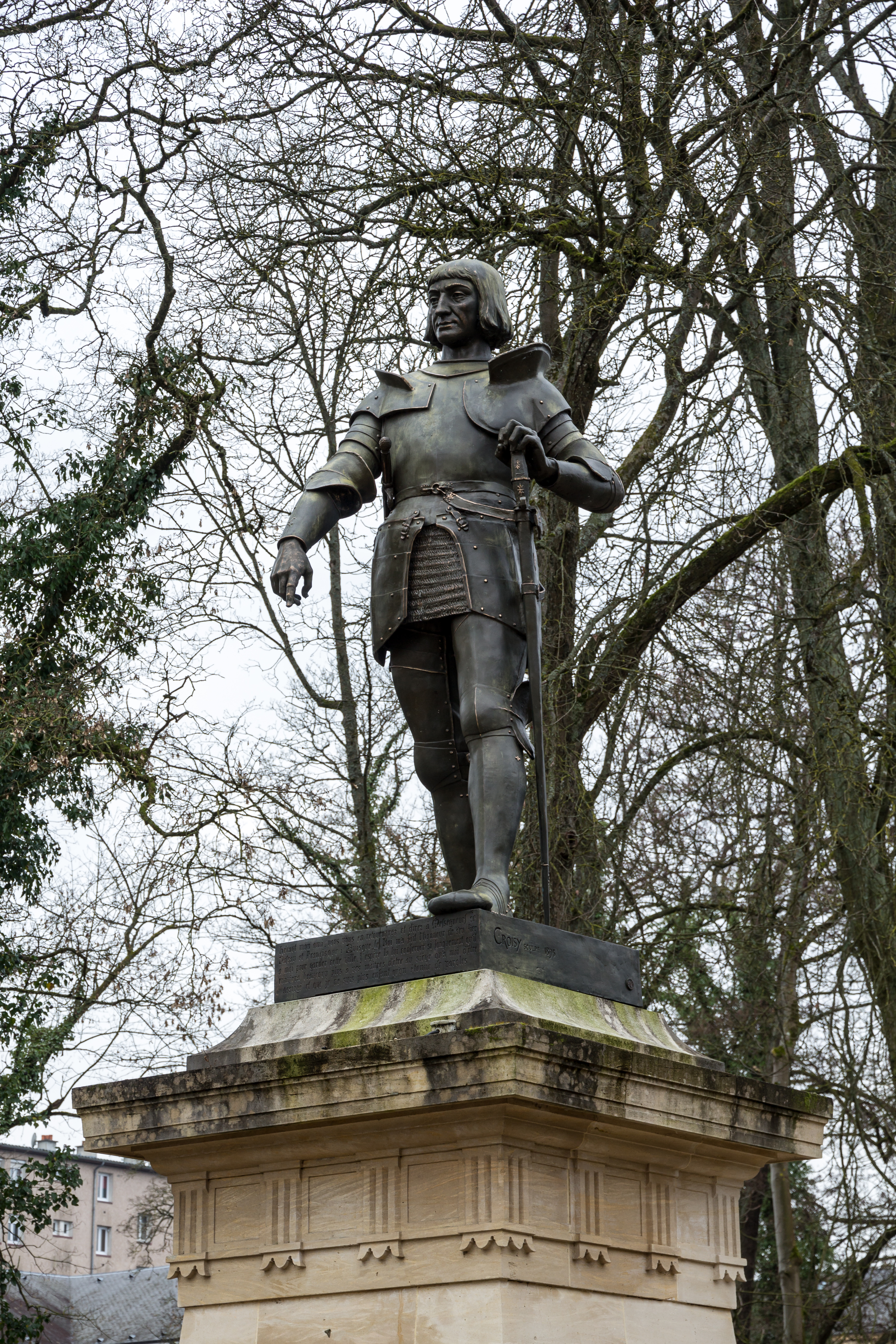 Pierre du Terrail (Chevalier de Bayard) “Bayard” (Aristide-Onésime Croisy, 1895), Charleville-Mézières, France